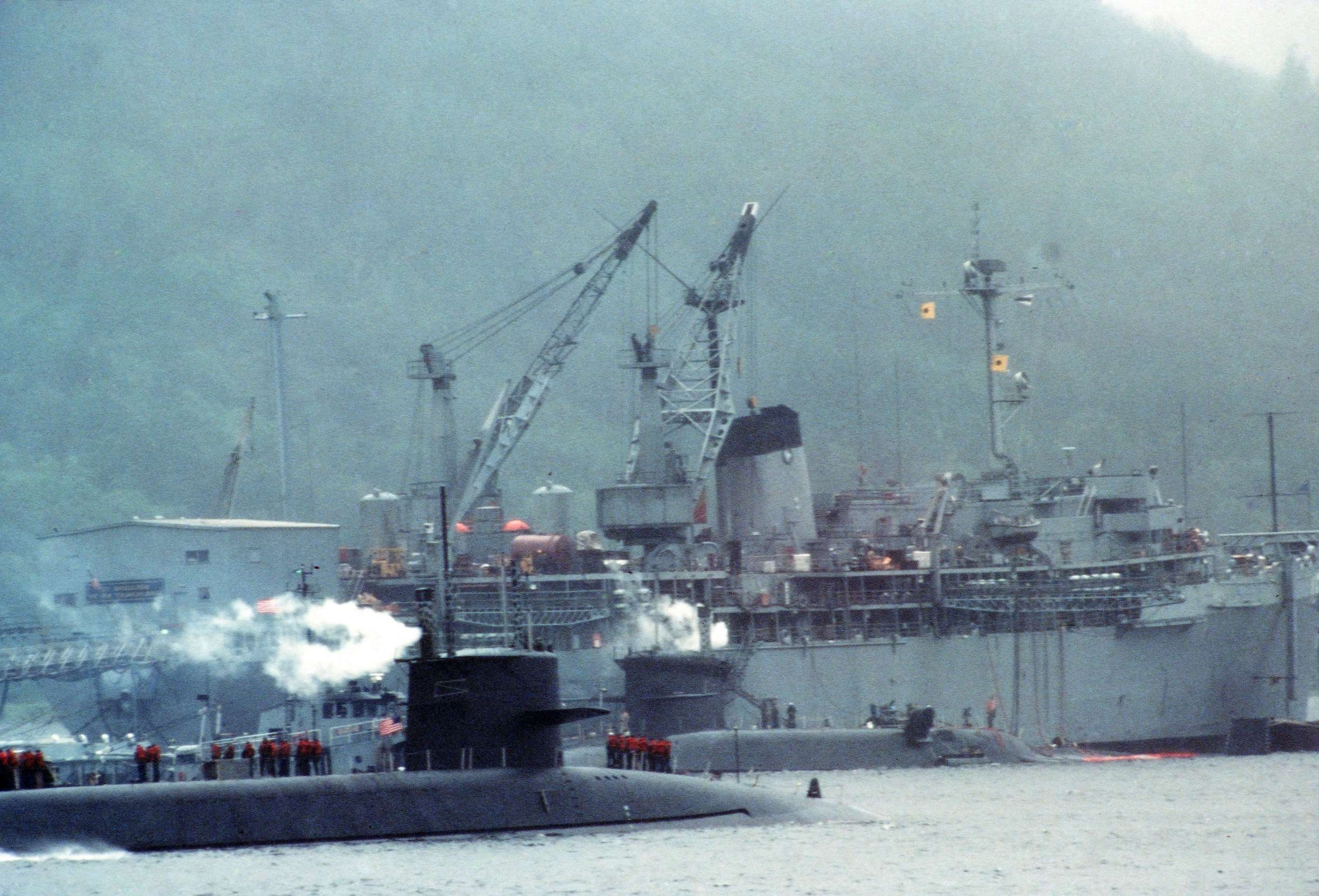 Two U.S. submarines come alongside the fleet ballistic missile submarine tender USS HUNLEY (AS 31) at Holy Loch Refit Site 1.